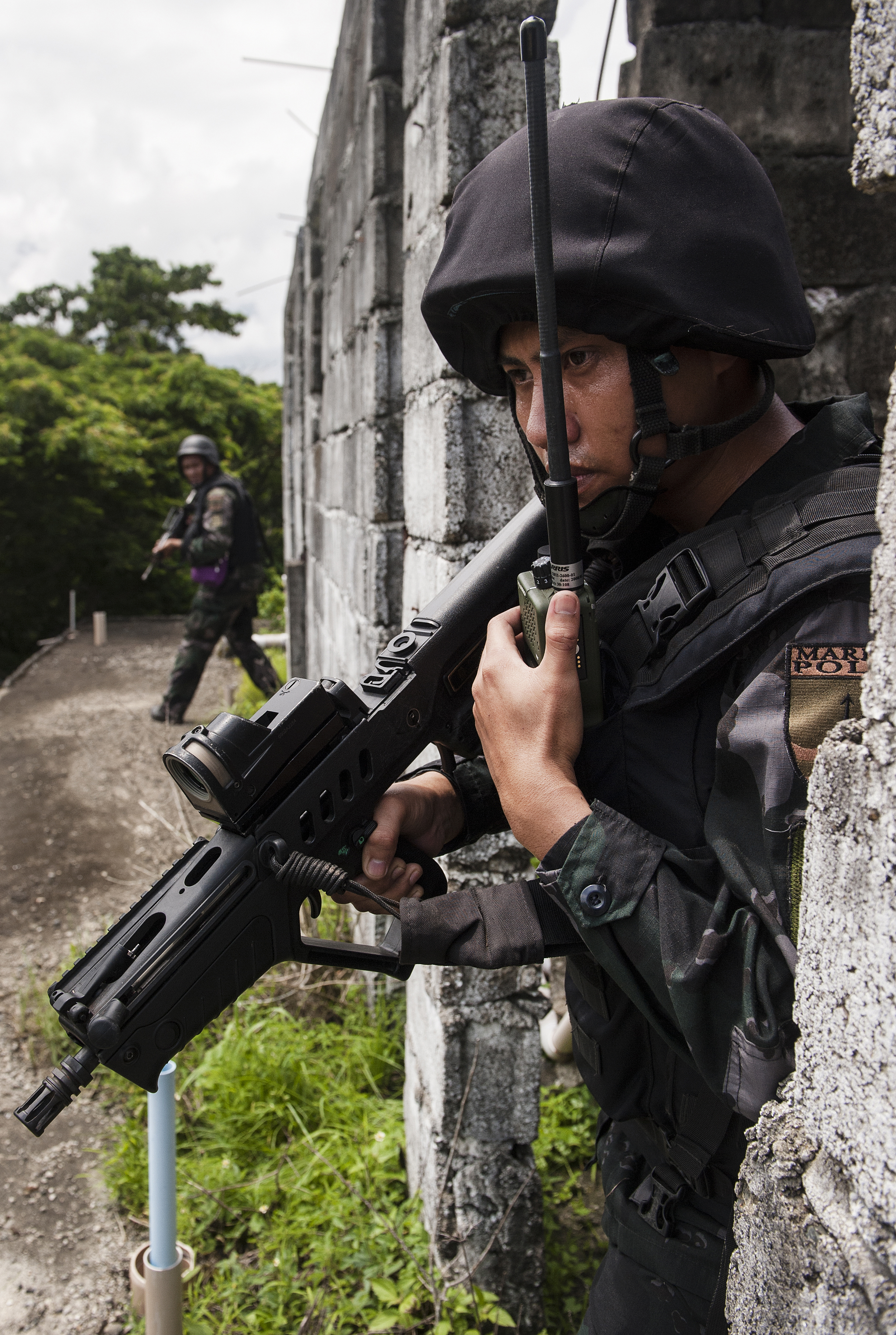 A Philippine National Police (PNP) Maritime Group member communicates with other PNP forces during a direct action training scenario as part of the Joint Interagency Task Force (JIATF) West exercise Aug. 6, 2014, in Puerto Princesa, Philippines. PNP police officers received training from U.S. Army, Operational Detachment-Alpha Special Forces operators to increase their capabilities in support of counterdrug efforts during JIATF West. The mission of JIATF West is to reduce threats in the Asia-Pacific by combating drug related transnational organized crime. The work of JIATF West supports counterdrug efforts of partner nation law enforcement and military units with law enforcement or border security responsibilities. (U.S. Air Force photo by Staff Sgt. Christopher Hubenthal/RELEASED)